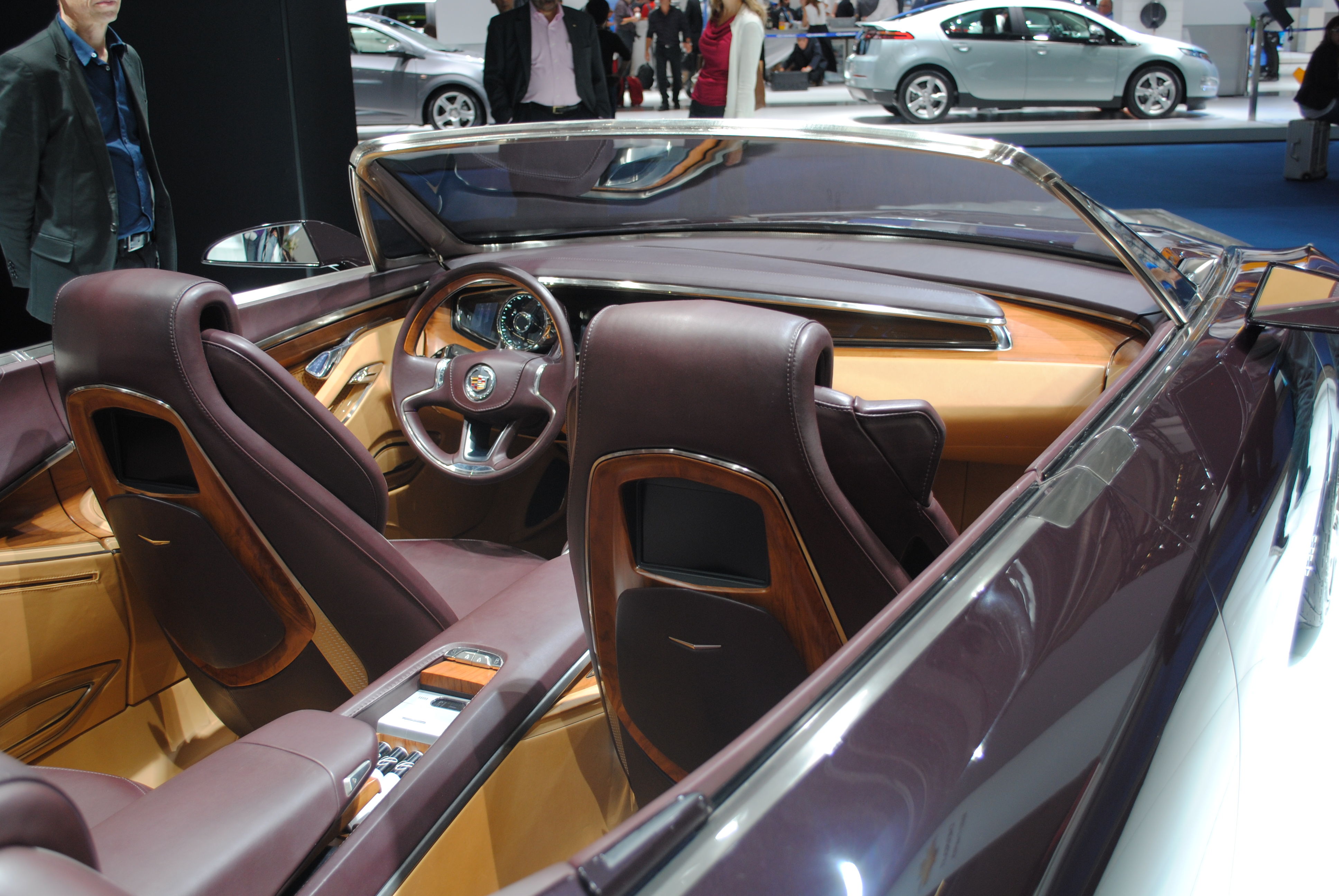 Cadillac Ciel Concept Car at the Frankfurt Motor Show. For more info and pics, check